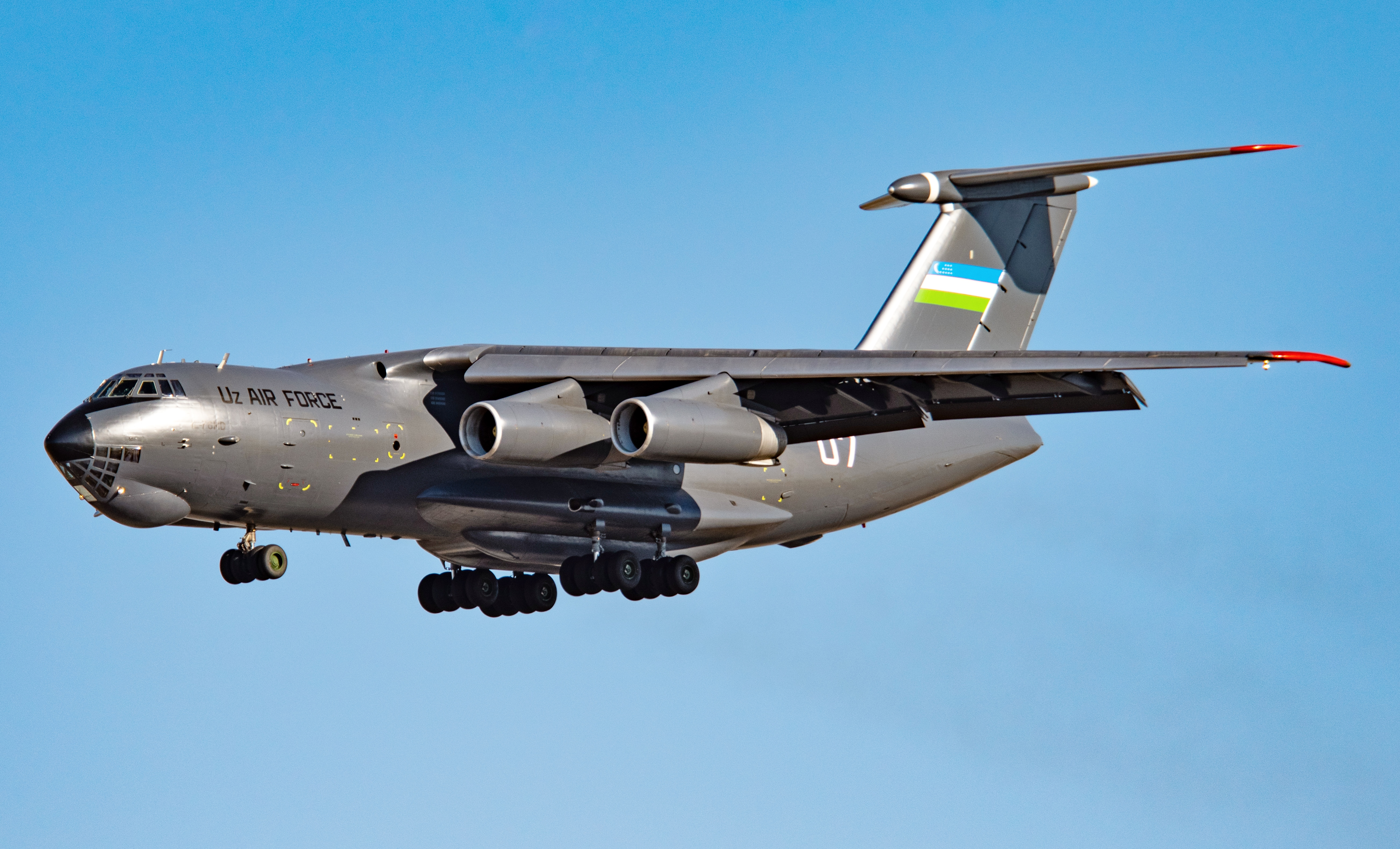 UK76007 from Tashkent or somewhere. "Uz Air Force"... reminding me of B'z.